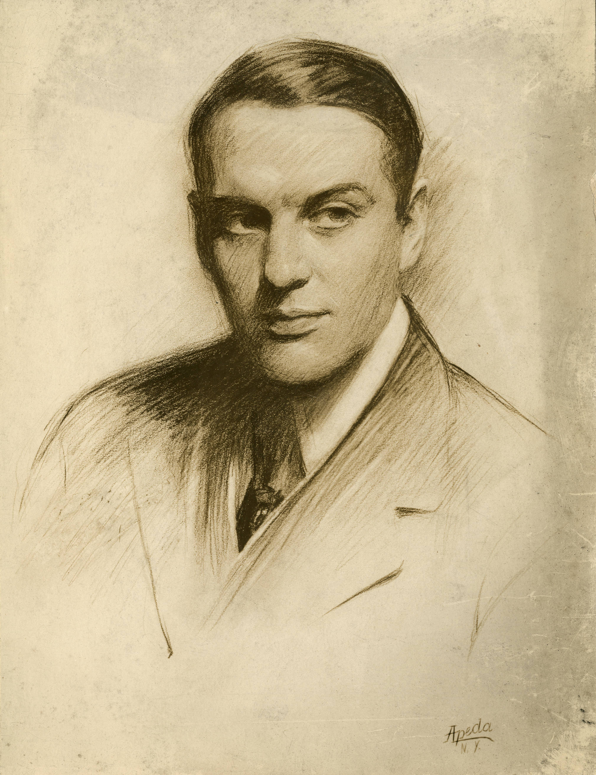 Vaudeville actor Henry Clive. Subjects: vaudeville